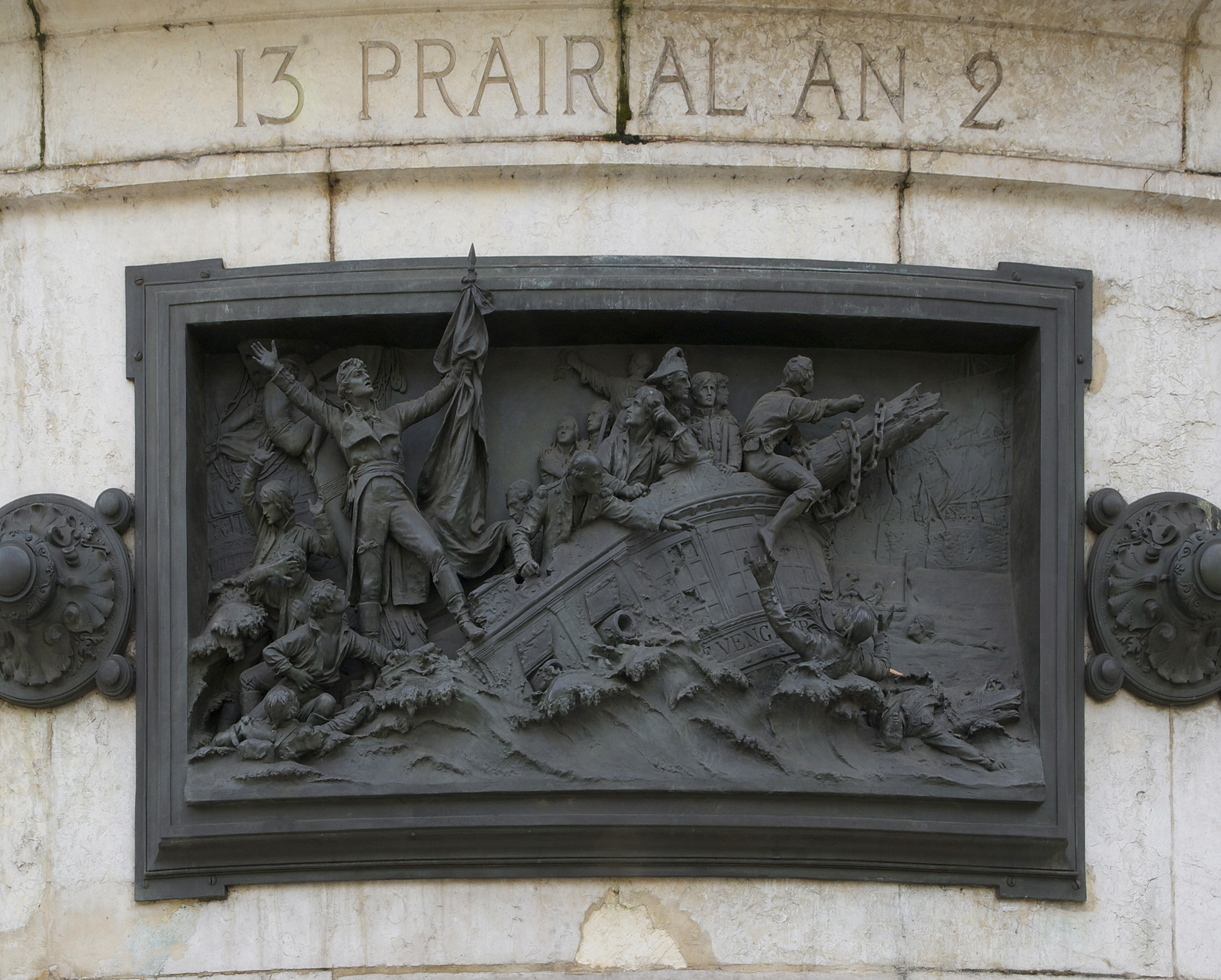 The sinking of the Vengeur, during the Glorious First of June 1794 (Third Ushant Battle). By Leopold Morice, 1883. Pedestal of the Monument to the Republic, Paris.